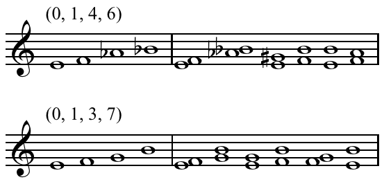 All-interval tetrachord dyads. Created by Hyacinth (talk) 07:56, 7 December 2010 using Sibelius 5. See: File:All-interval_tetrachord_dyads.mid